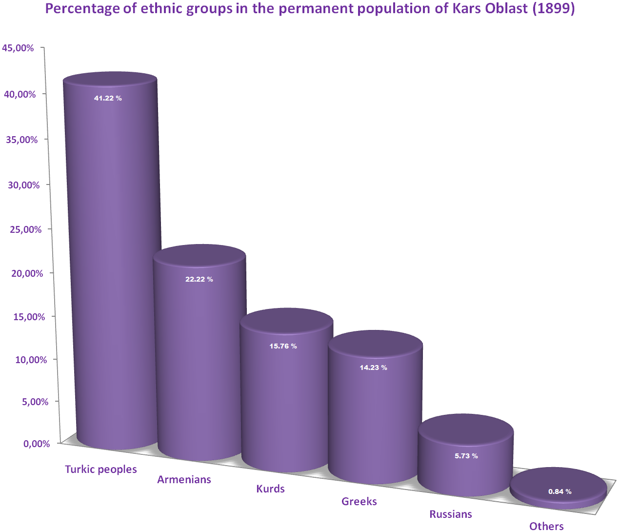 Percentage of ethnic groups in the permanent population of Kars Oblast (1899)